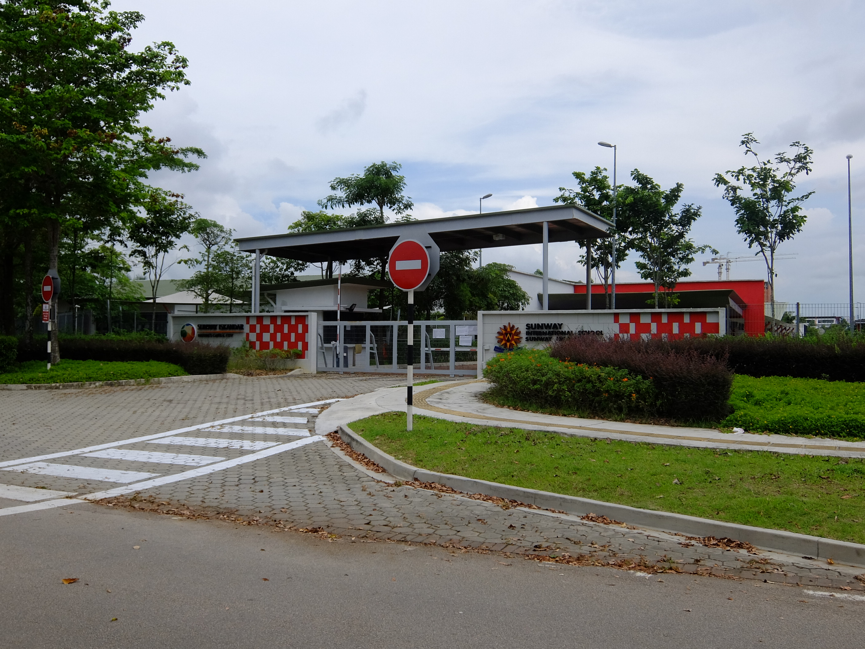 Sunway International School, Sunway Iskandar, Iskandar Puteri, Johor Bahru, Johor, Malaysia